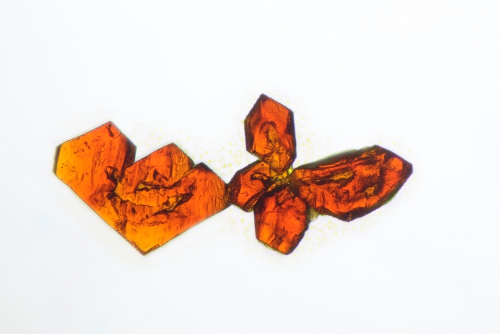 Tetraiodmethan, kristallisiert aus Xylol